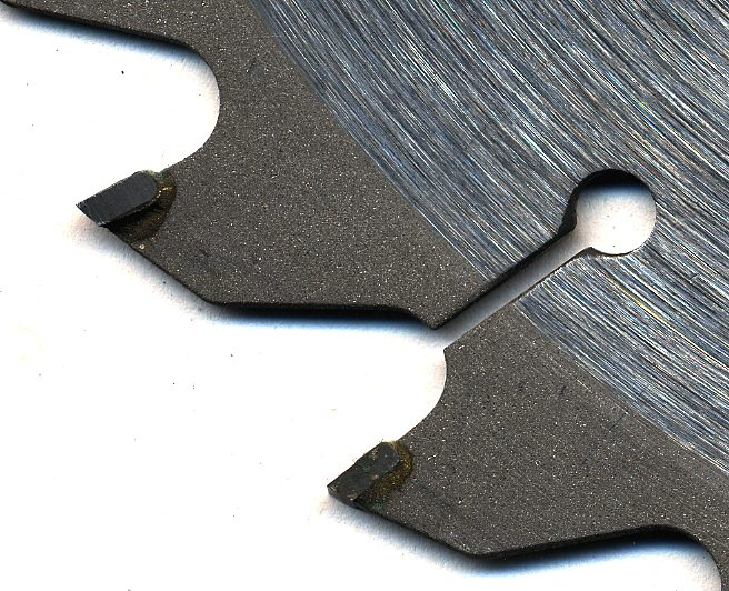 Widia cicular saw blade. Widia is a a registered trademark of Krupp, the german acronym of "Wie Diamant" (as diamond)